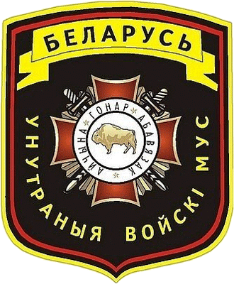 Combined Military emblem (patch) of the Internal Troops of Belarus